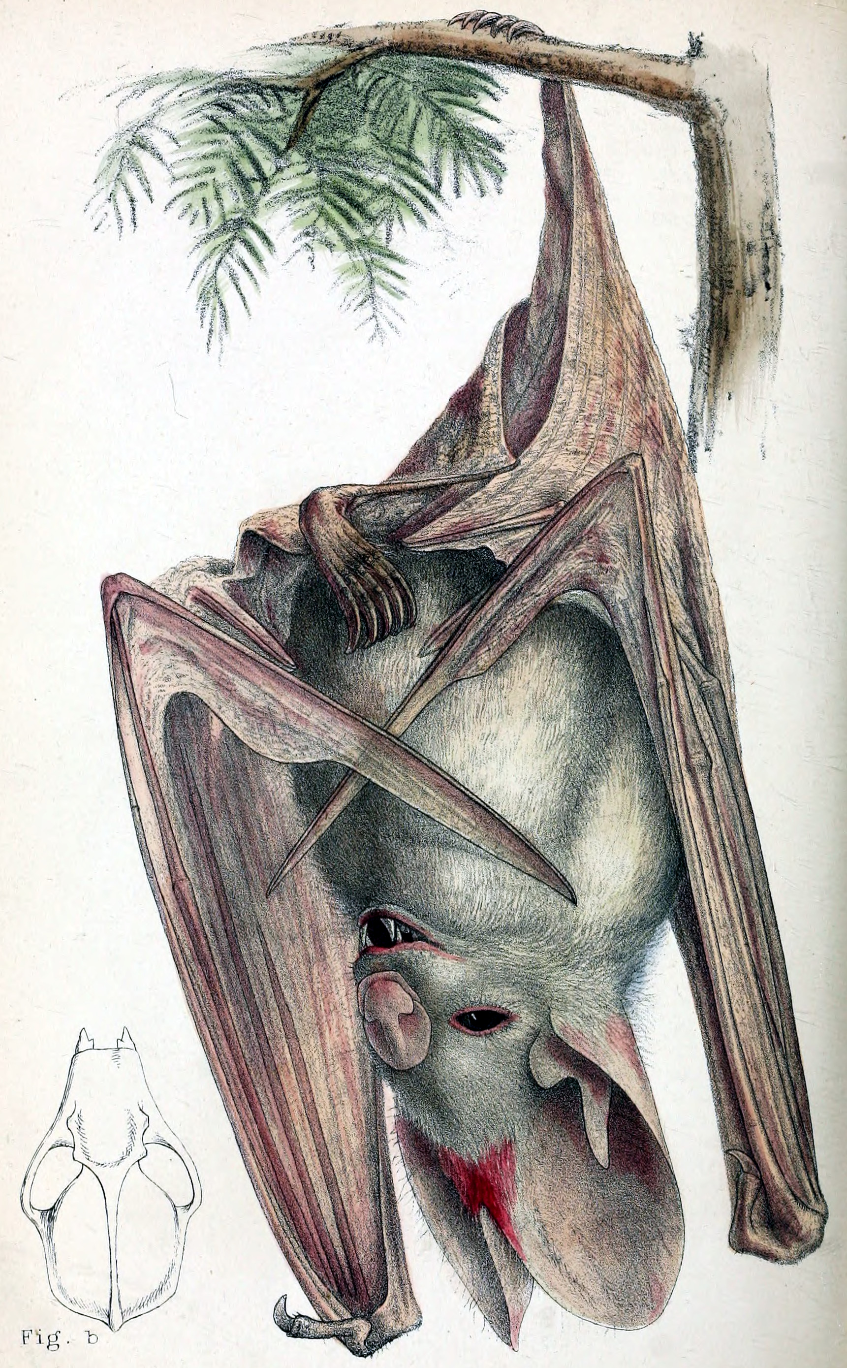 Illustration published with first description of Macroderma gigas, named here as Megaderma gigas, a species of microbat found in Australia. There is a figure depicting a skull of the animal at bottom left. The image was adjusted to lighten backgound, and a crop to content removed the captioning.